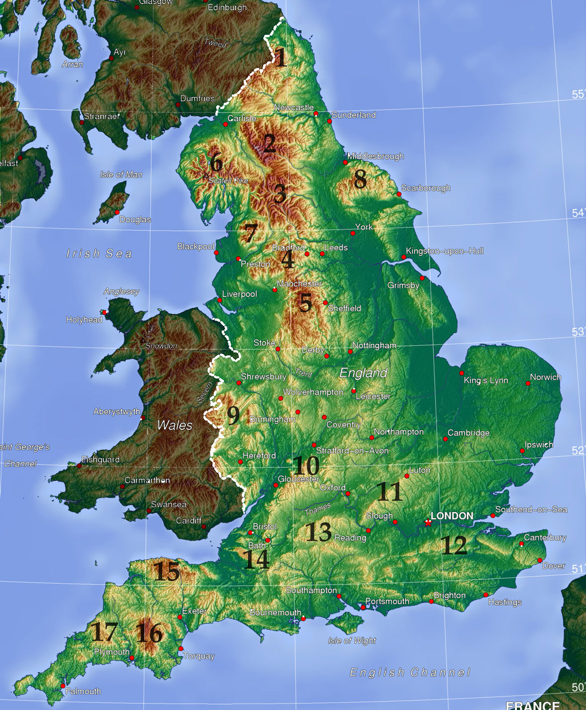 Topographic map of England, with significant areas of hills and mountains numbered